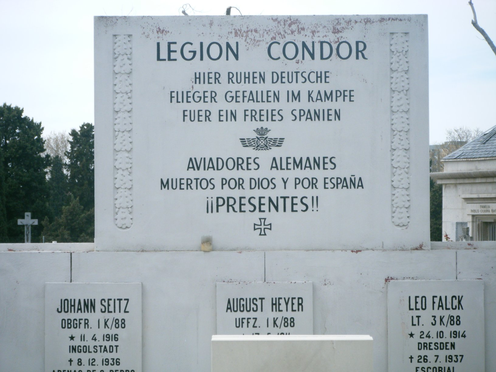 part of the memorial for Legion Condor, Cementerio de la Almudena, Madrid, Spain. The German and Spanish inscriptions are very different. The German inscription reads: "Here rest German flyers fallen in the battle for a free Spain." The Spanish inscription reads: "German flyers died for God and for Spain. Present!"